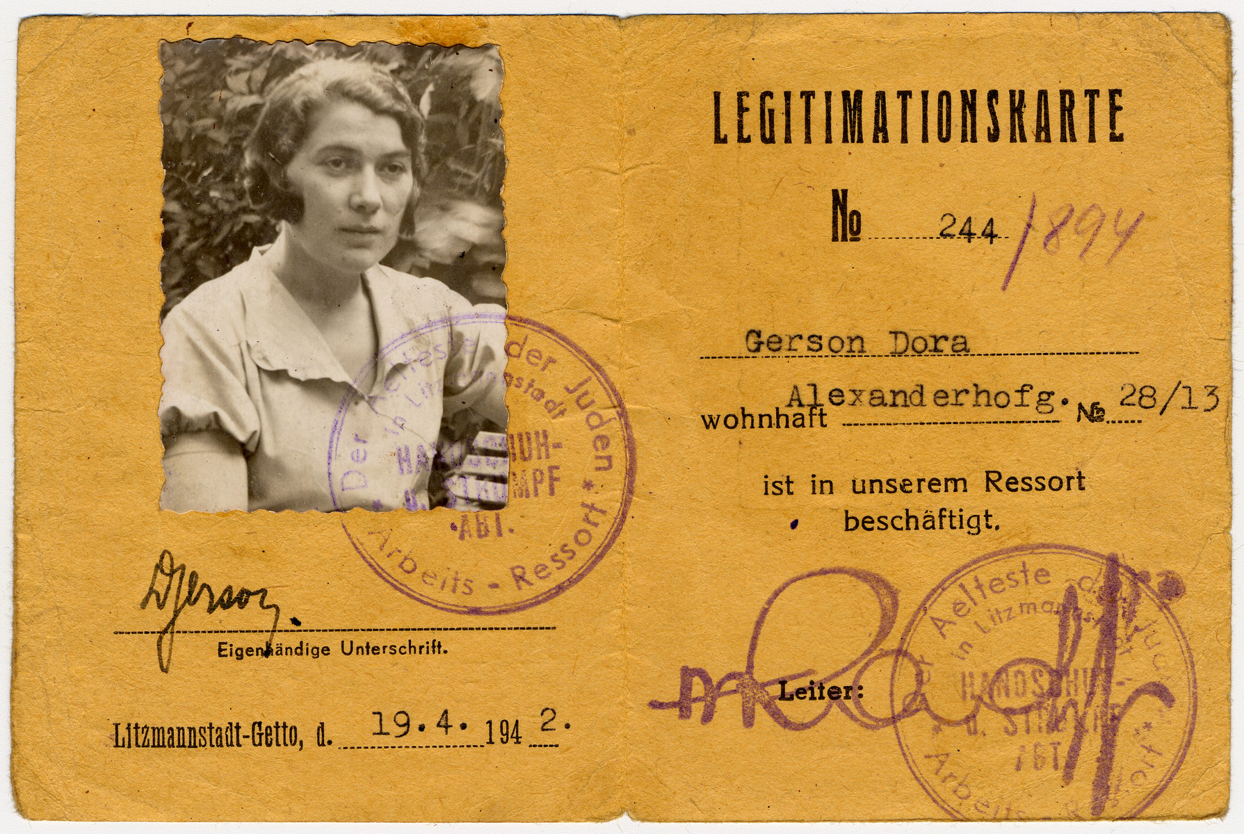 Identification card issued to Dora Gerson, (born in Łódź) in the Lodz ghetto. NOT the actress Dora Gerson!